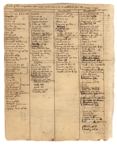 A page from Thomas Jefferson's record book, (dated 1795) listing the names of his slaves over the years. They numbered roughly 600 in his lifetime, though he only employed about 120 at any one given time.